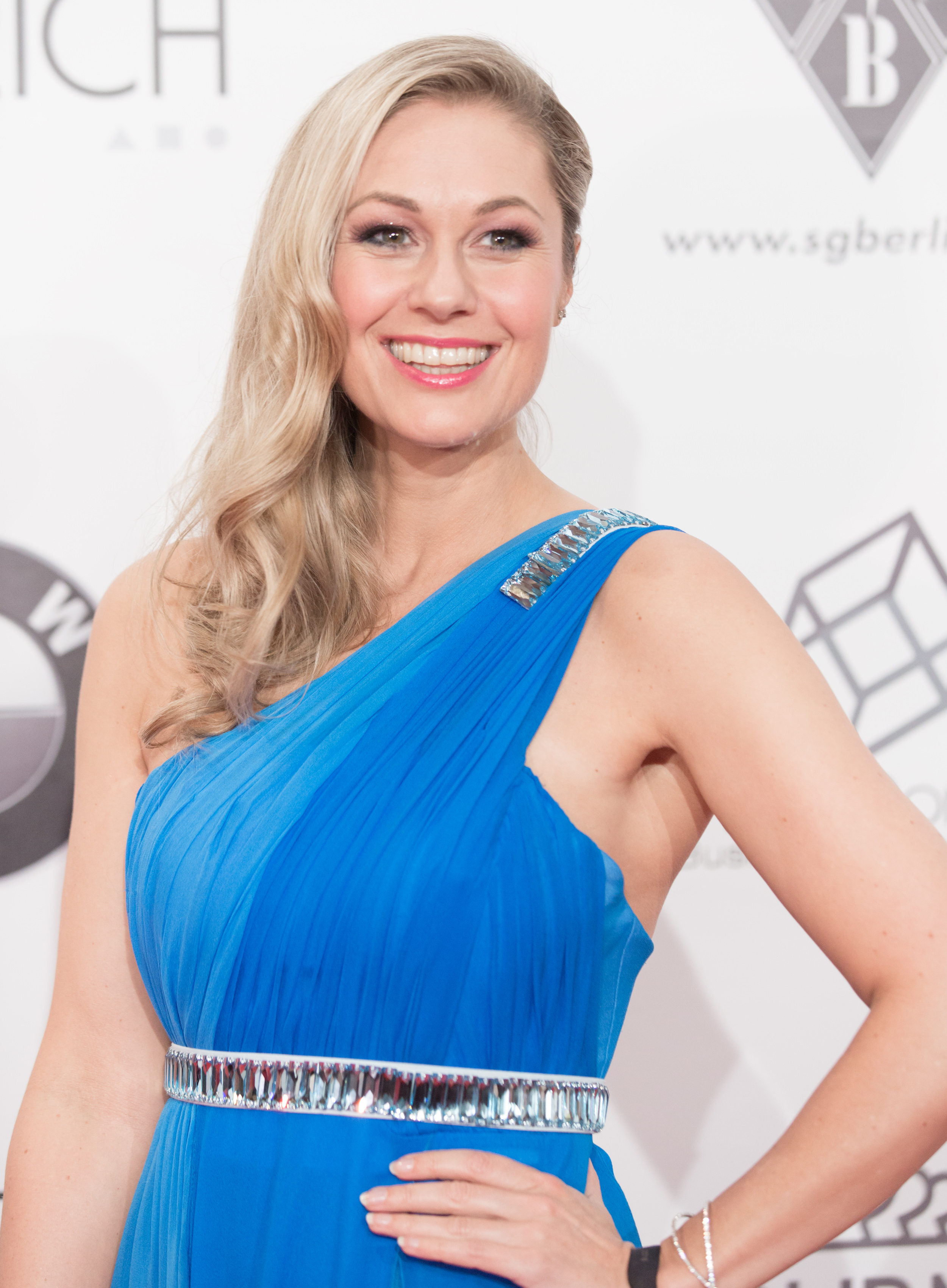 Ruth Moschner on the red carpet of the Filmball Vienna 2016 at Rathaus, Vienna, Austria.